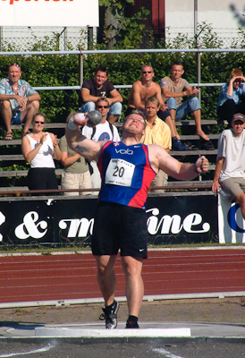 Joachim Olsen shot put.